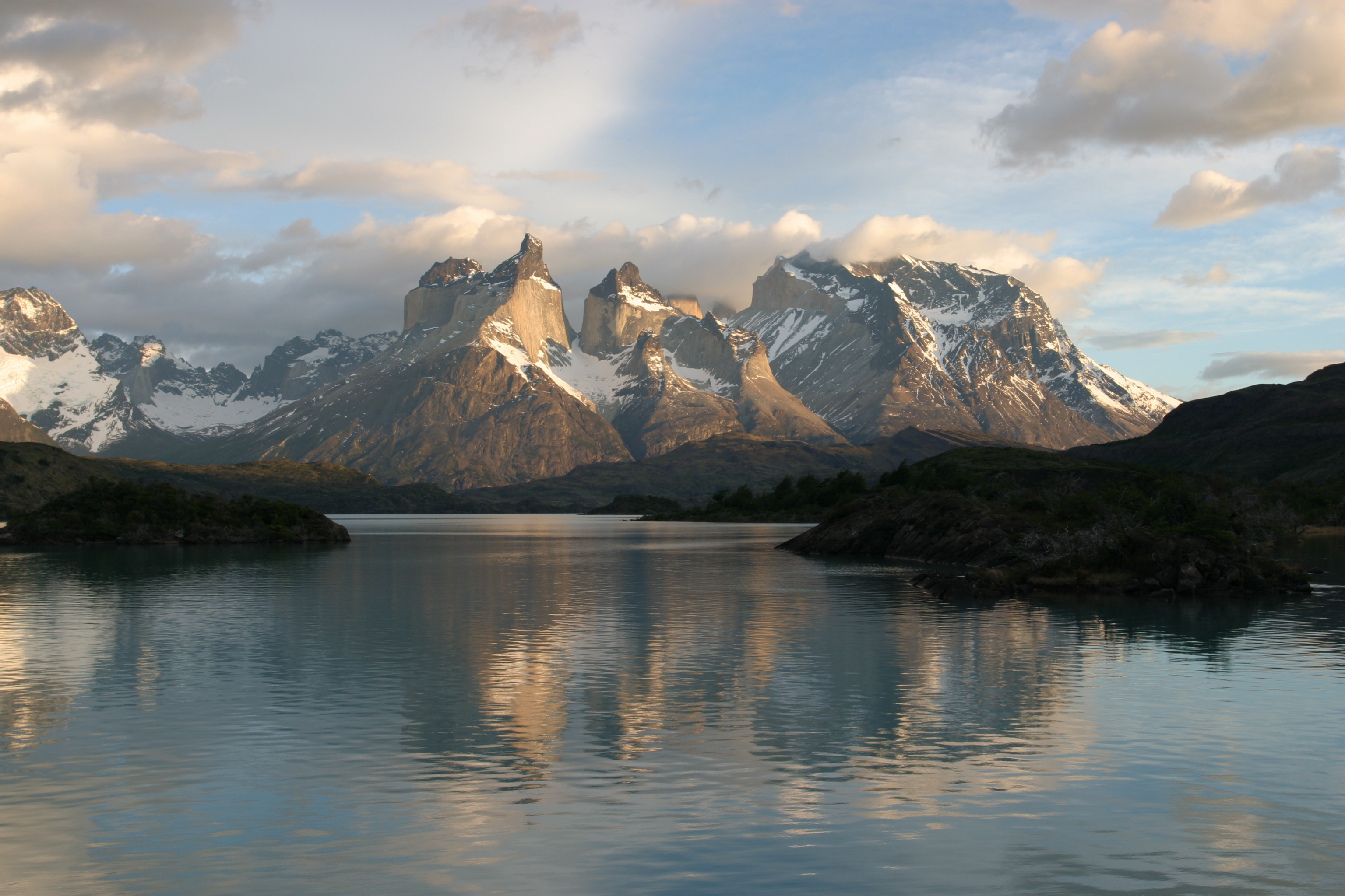 After three days of horrendous weather, this day broke calm and clear. This picture is looking across Lago Pehoe at sunrise.